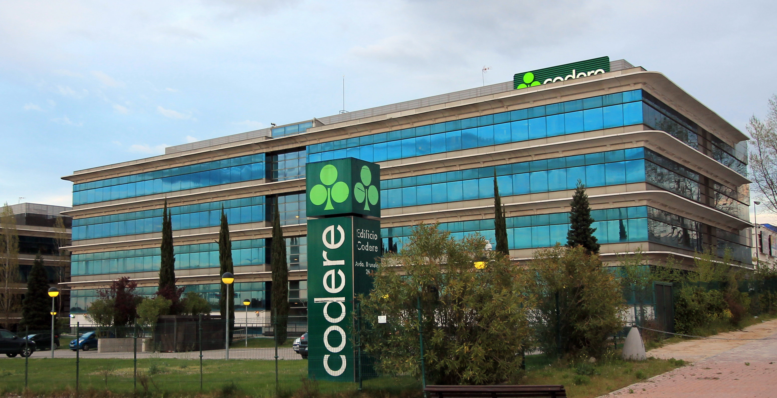 View of Codere headquarters, at 26 Avenida de Bruselas (street) in Alcobendas (Community of Madrid, Spain).